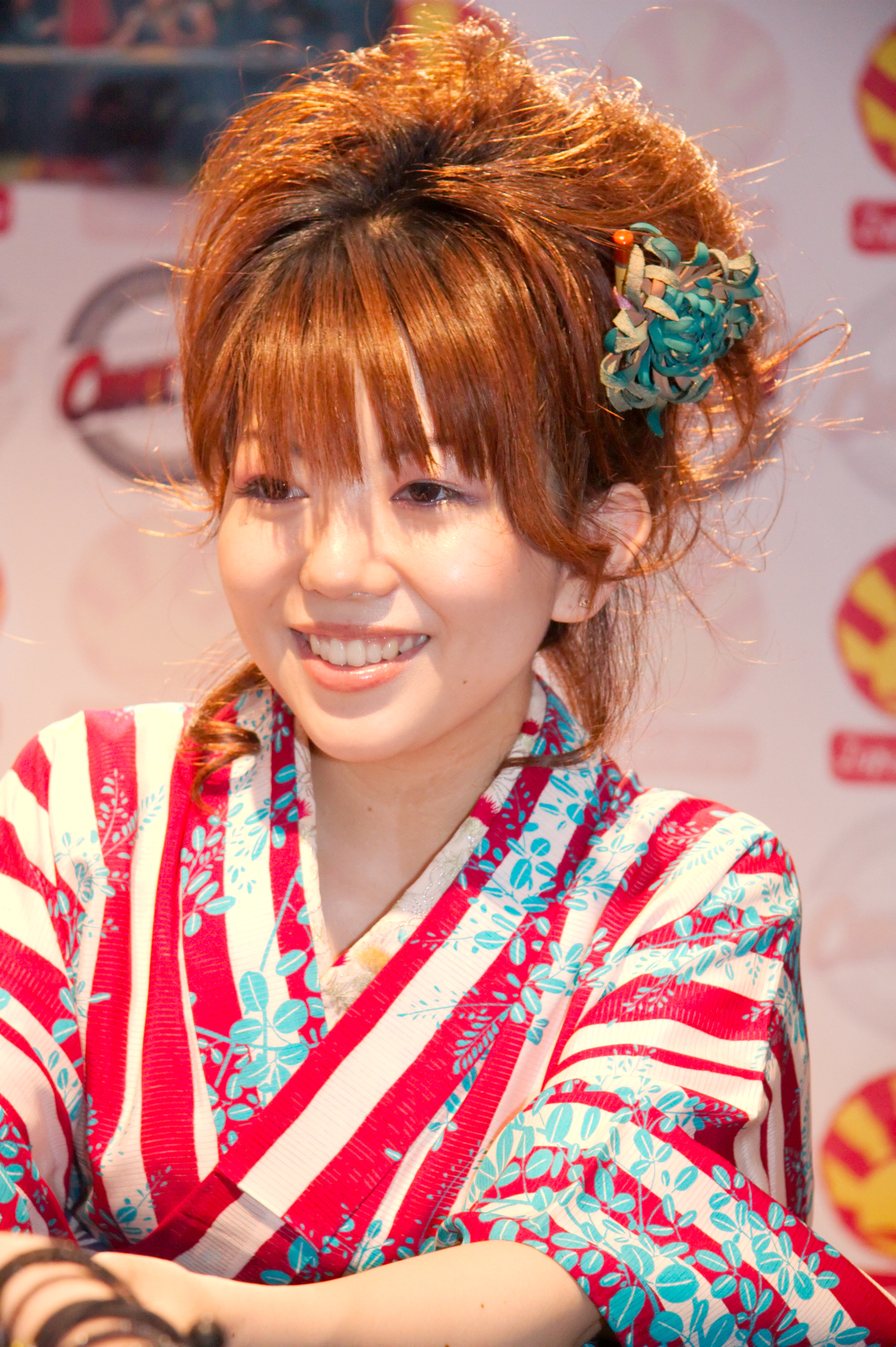 Autograph session with Yui Makino at Japan Expo 2009 (Paris, France).